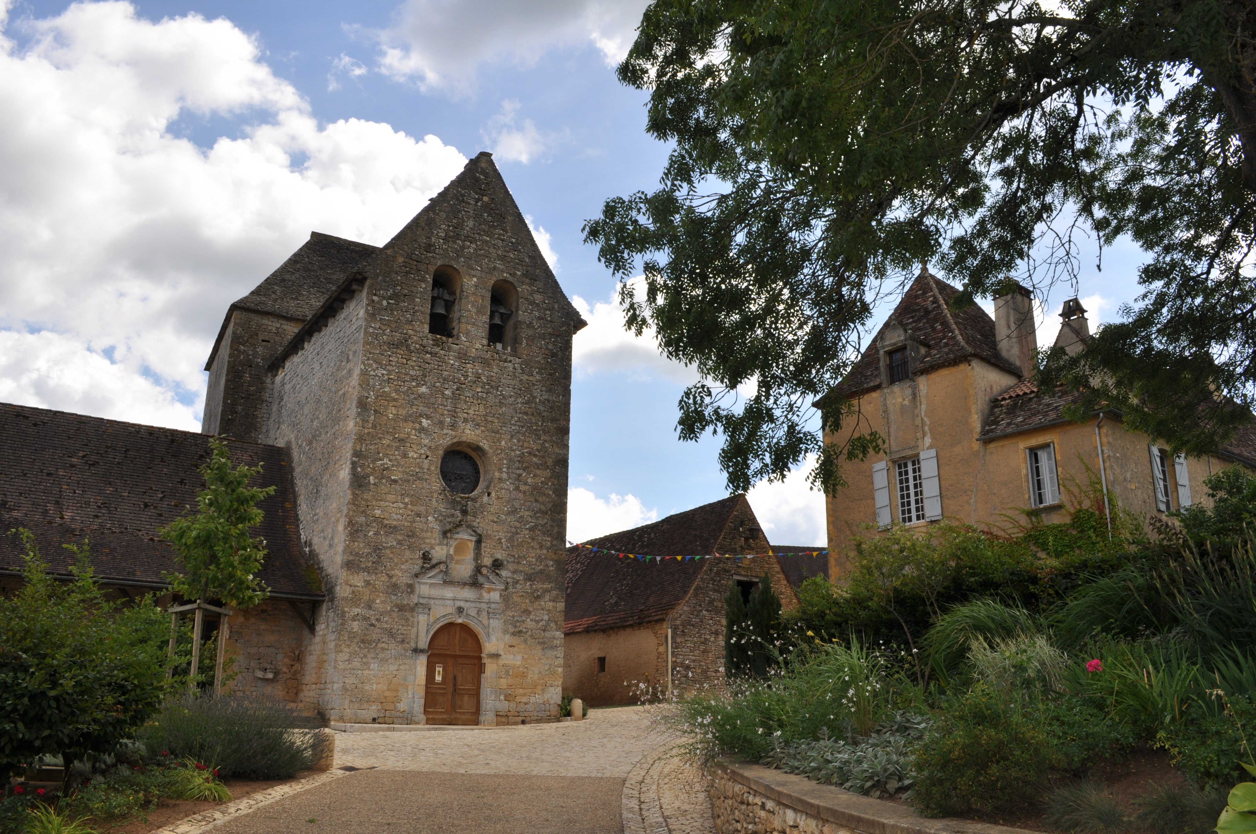 Small village of Orliac, in Dordogne, France